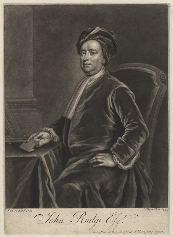 Portrait of John Rudge (1669–1740), English merchant, banker and politician.